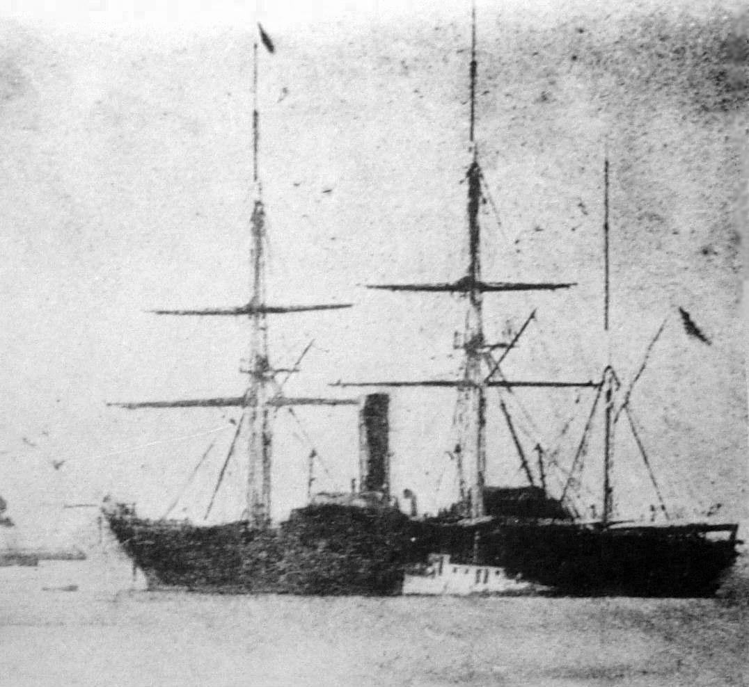 a ship of Kurofune サスケハナ号 (Se Su Ke Ha Na - USS Susquehanna, one of the 4 "Kurofune" or "Black Ships" of Commodore Perry's squadron. 黒船